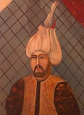 Sokollu Mehmet Paşa (1506 - 1579), Ottoman statesman.